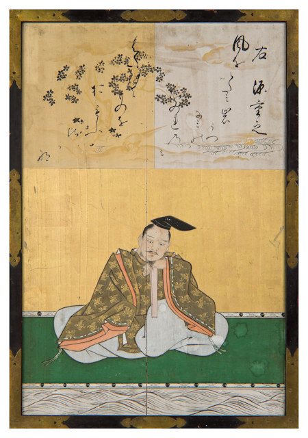 Sanjūrokkasen-gaku (Thirty-six Poetry Immortals framed picture) #29: Minamoto no Shigeyuki